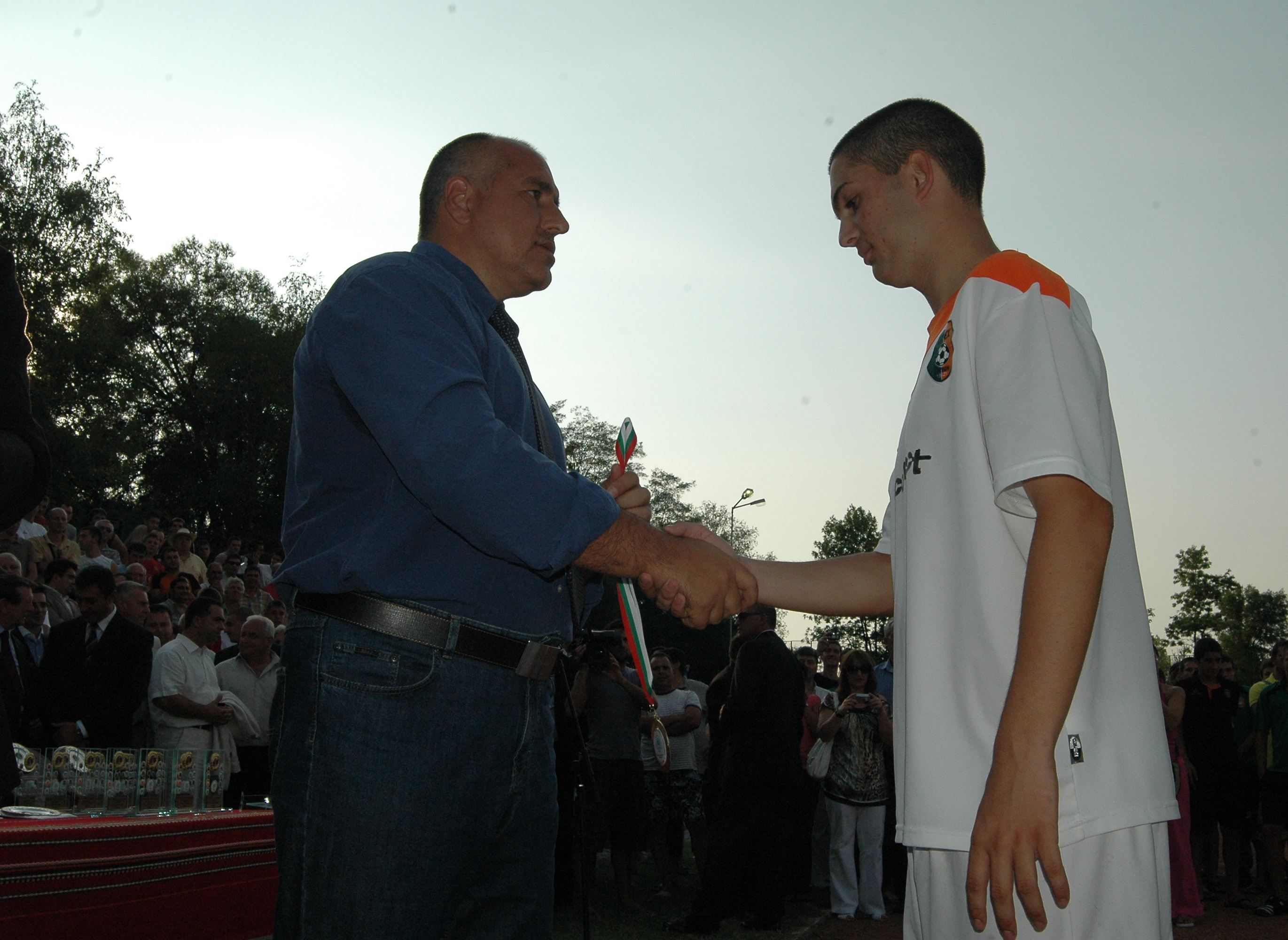 Yanaki Smirnov